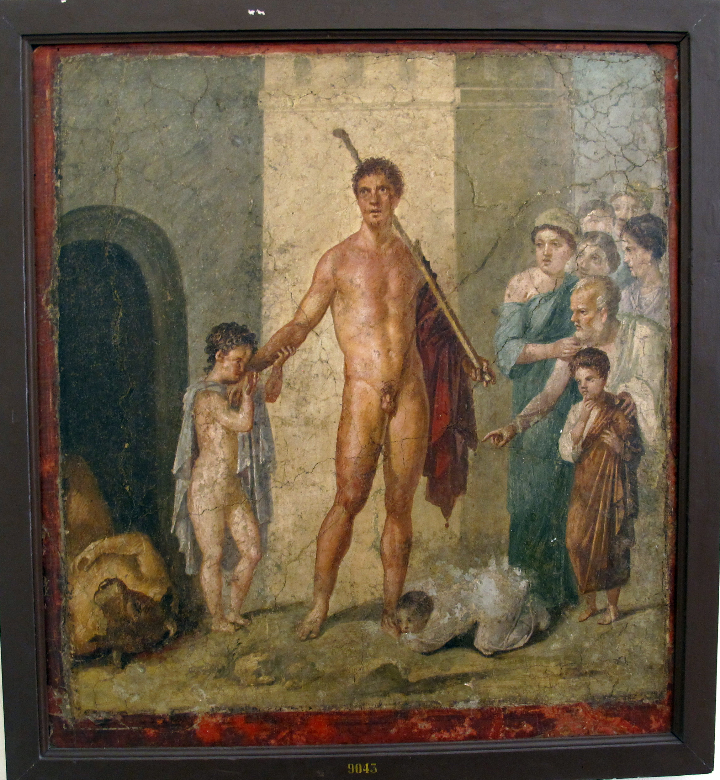 Ancient Roman frescos in the Museo Archeologico (Naples)